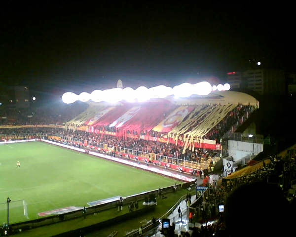 Galatasaray fans before the match between Galatasaray and Fenerbahçe in 27 February 2008.